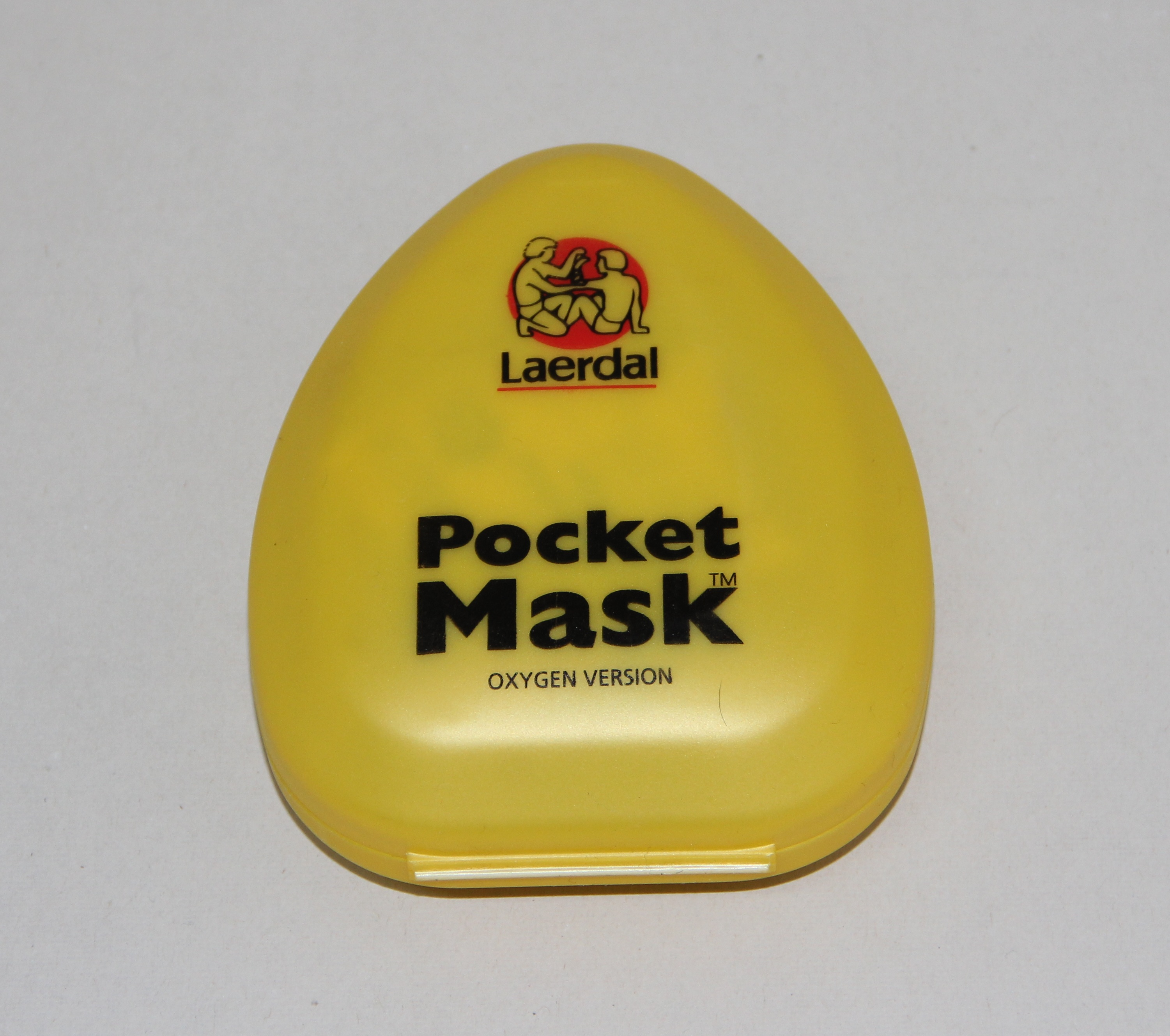 Laerdal Pocket Mask Case